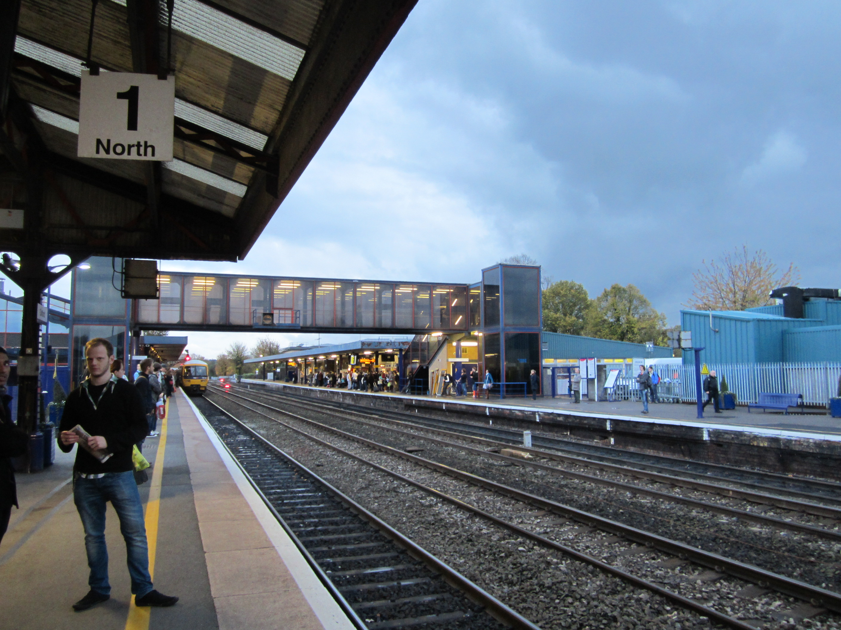 Oxford Railway Station at dusk